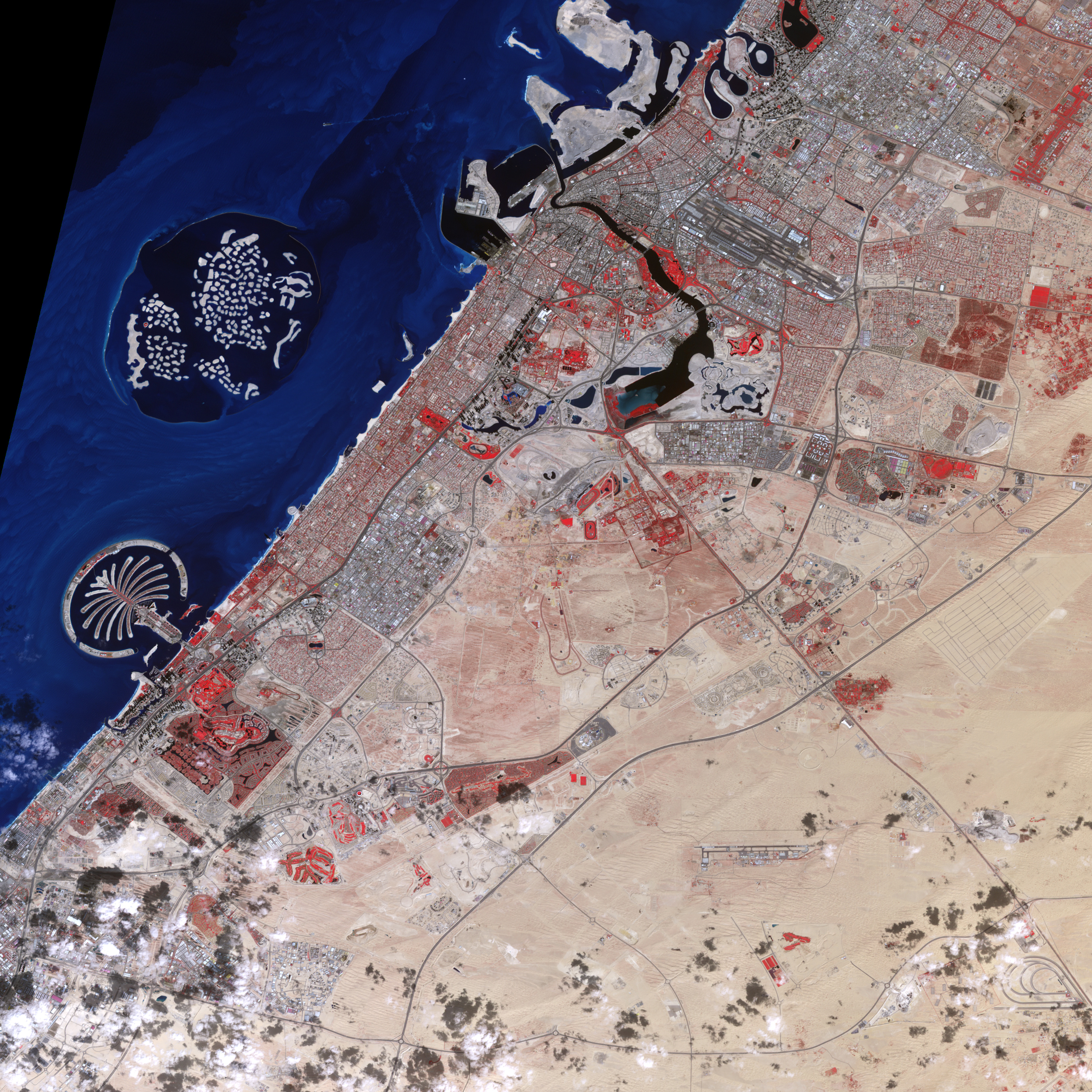 Part of the United Arab Emirates, the resort town of Dubai entered a period of dramatic urbanization at the beginning of the twenty-first century. Lacking oil, Dubai built its growth on finance, real estate, and tourism. With no surface water, few aquifers, and little rainfall, the city used desalinization plants to convert ocean water to freshwater, ornamenting the city with golf courses, gardens, and palm trees. Gigantic palm trees also sprouted along the coast—artificial islands made from sea-floor sand protected by rock breakwaters. The Advanced Spaceborne Thermal Emission and Reflection Radiometer (ASTER) on NASA’s Terra satellite captured this false-color image of part of Dubai, including the resort island of Palm Jumeirah, on February 8, 2010. Bare ground appears brown, vegetation appears red, water appears dark blue, and buildings and paved surfaces appear light blue or gray.